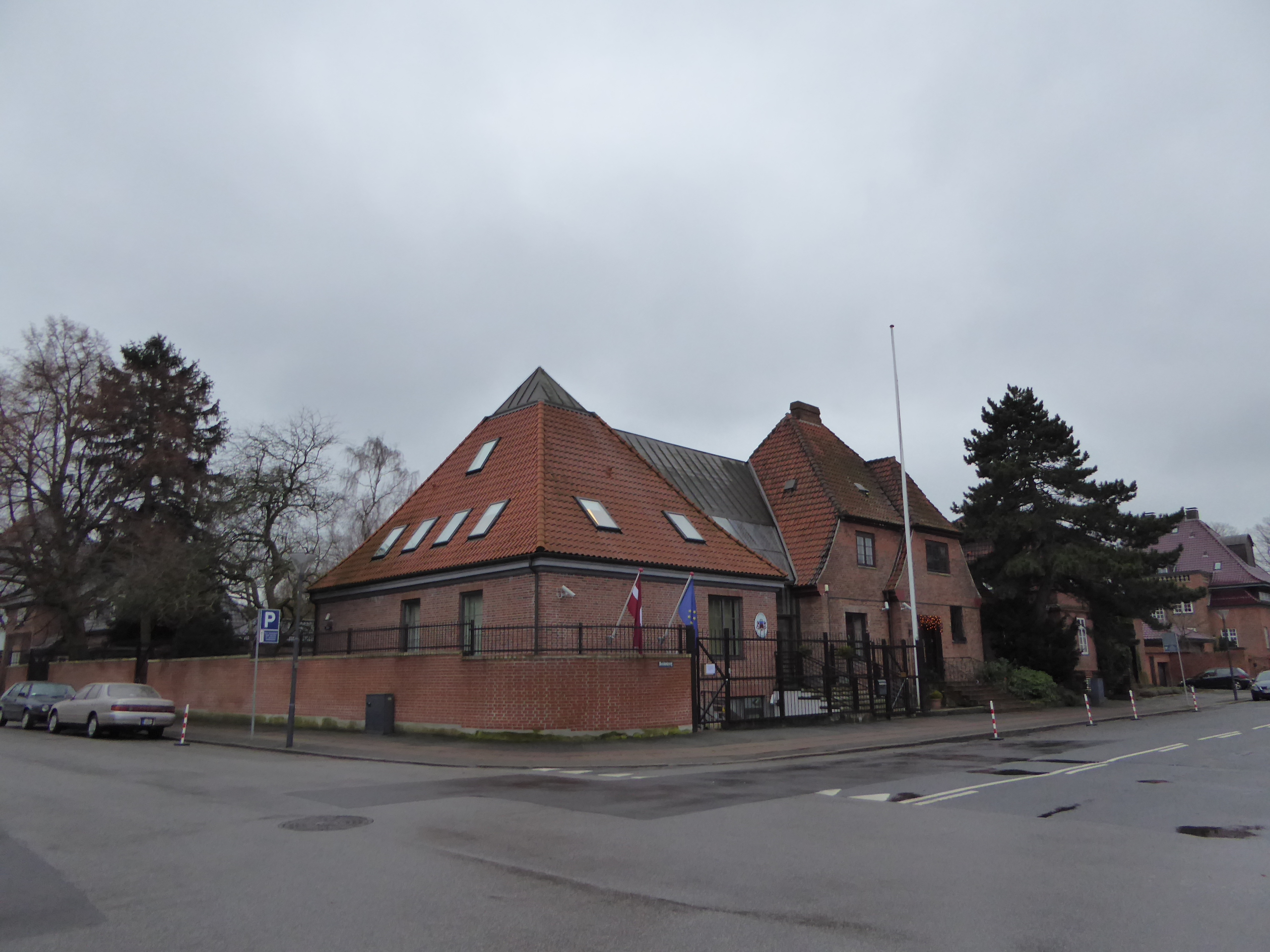 The embassy of Latvia at Rosbæksvej in Østerbro in Copenhagen.